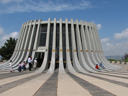 This is my own work. Photo by Gila Brand. Yad Kennedy, JFK memorial in the Jerusalem Mountains